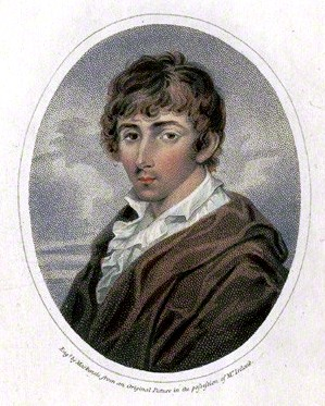 Hand-coloured stipple engraving of William Henry Ireland by Frederick Mackenzie, after unknown artist, National Portrait Gallery, London